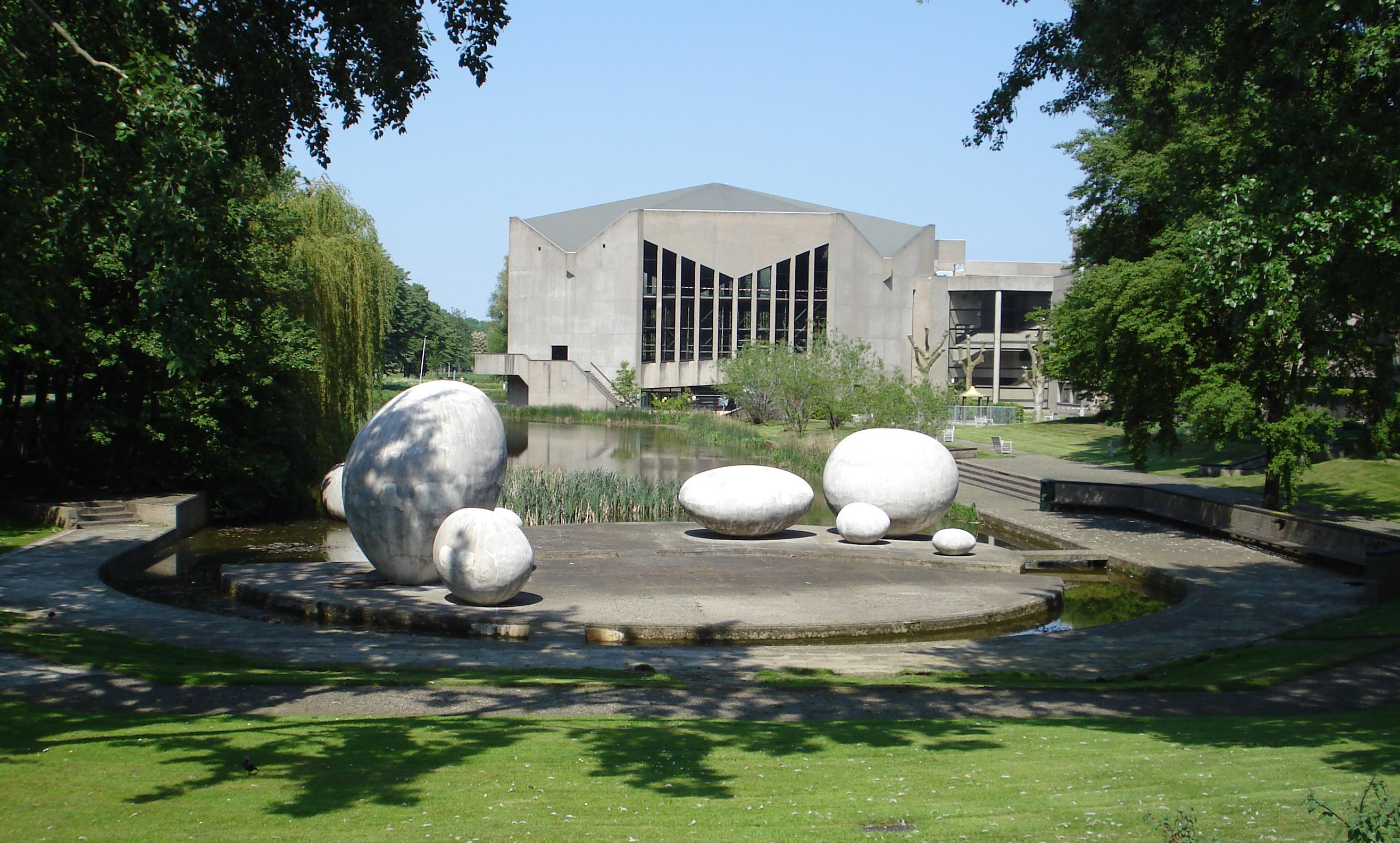 Rotterdam, Burgemeester Oudlaan (Universiteit). Kunstwerk. Zonder titel van Hans Petri. Rotterdam/The Netherlands